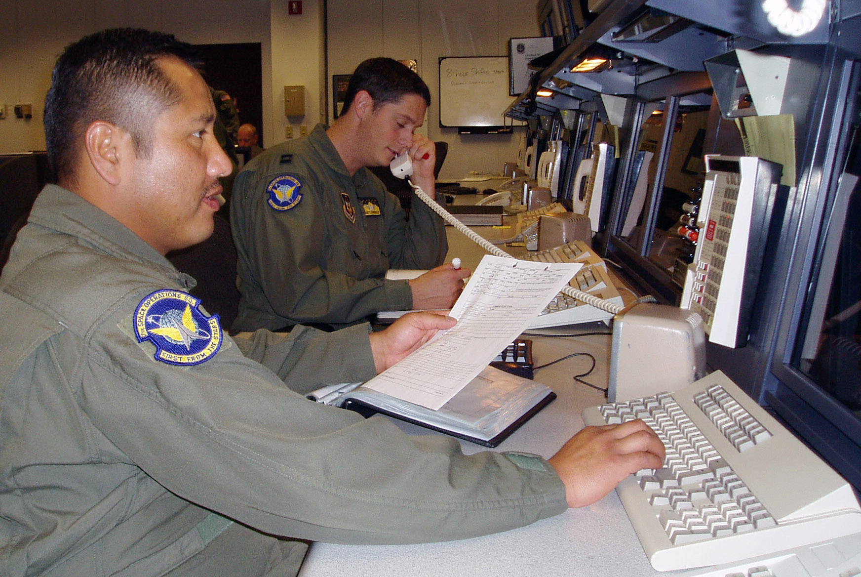 Technical Sergeant Juan Gutierrez (left) and Captain Garrett Donnelly, both of the 7th Space Operations Squadron, check on the status of a satellite to ensure it is operating within normal parameters. They are among the reservists who will become part of the new 310th Space Wing when it is activated March 7 at Schriever Air Force Base, Colorado.